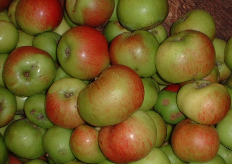 Bramley apple (cooking), British Columbia, Canada